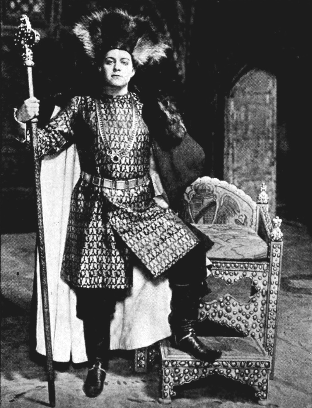 Mussorgsky - Boris Godunov - Paul Althouse as Dimitri - Photo White Title: The Victrola book of the opera : stories of one hundred and twenty operas with seven-hundred illustrations and descriptions of twelve-hundred Victor opera records Year: 1917 (1910s) Authors: Victor Talking Machine Company Rous, Samuel Holland Subjects: Operas Publisher: Camden, N.J. : Victor Talking Machine Co. Text Appearing Before Image: pts the old monk. It is Boris, who, feeling himself dying, asks for his son, andin a few moments expires, begging his sonto rule wisely and always protect his sister,Xenia. Moussorgskys masterly opera has madeone of the greatest successes in the history ofthe Metropolitan, and it is astonishing that sofine a work should have been neglected fornearly forty years—for Boris was produced in1874—and the Western musical world, as onecritic has aptly remarked, must have beendozing. However, the Metropolitan has madeamends somewhat by giving a magnificent pres-entation of Moussorgskys opera, with a castthat could not be equaled anywhere in theworld. The duet presented here occurs in the scenerepresenting the garden of the castle of Michekin Poland. Marina, the beautiful daughter ofMichek, spurred on by both love and ambition,urges Dimitri to conspire against the throne. Finale, Act III (Garden Scene) By Margarete Ober, Contralto,and Paul Althouse, Tenor(In Italian) 76031 12-inch, $2.00 52 Text Appearing After Image: PHOTO WHITE ALTHOUSE AS DIMITRI